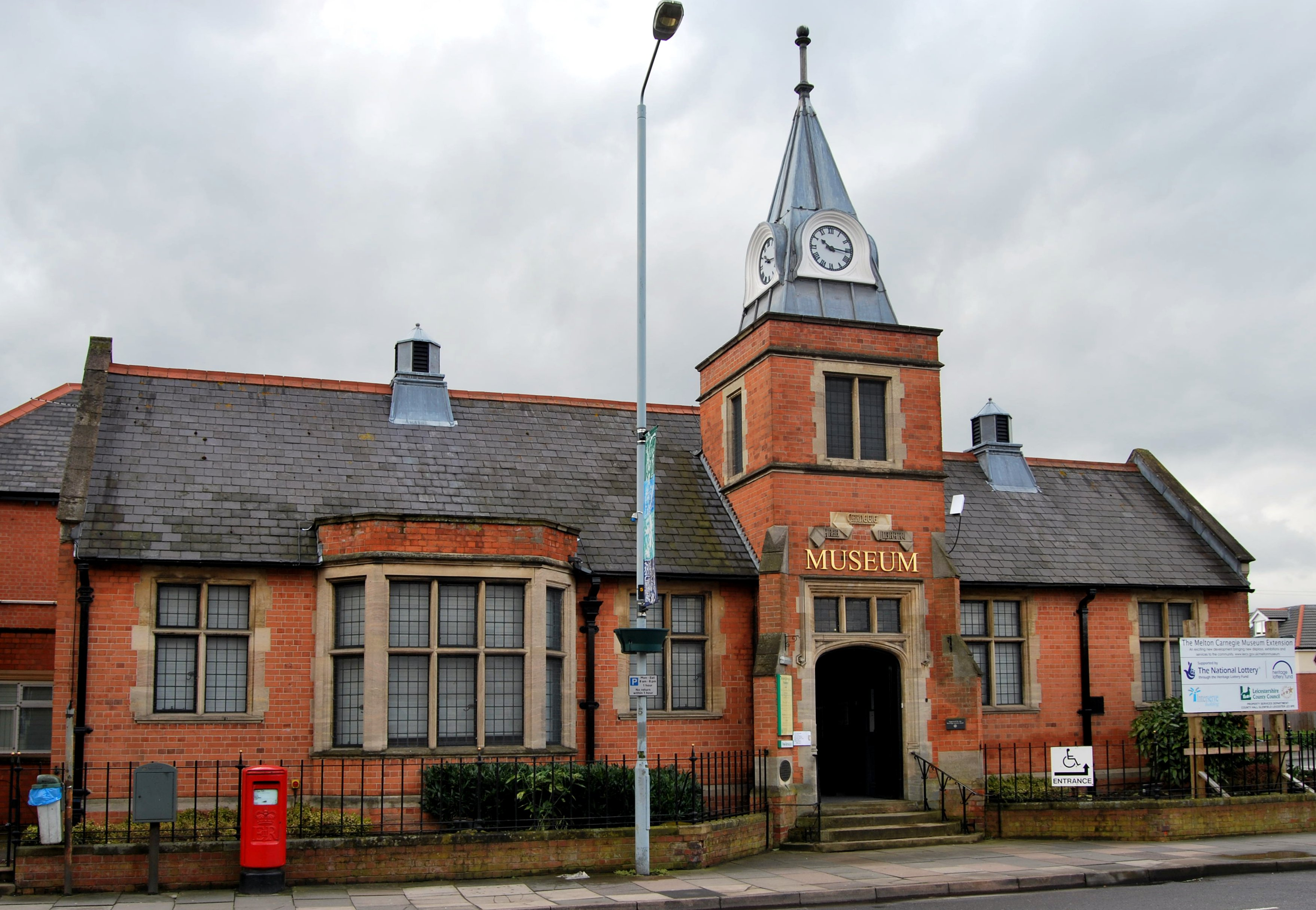 Melton Mowbray Museum